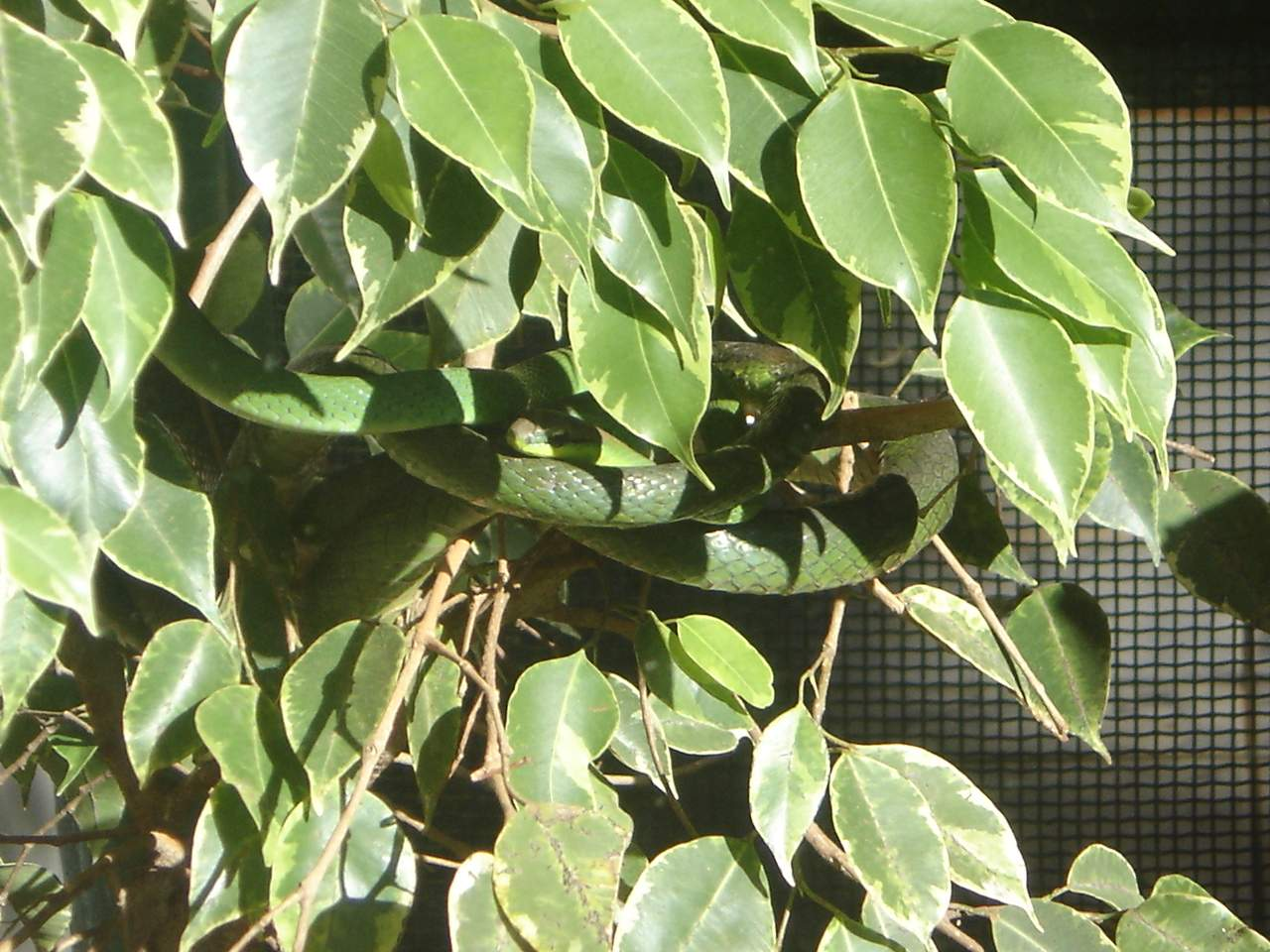 Chironius bicarinatus over a branch in Brasilia's Zoo.